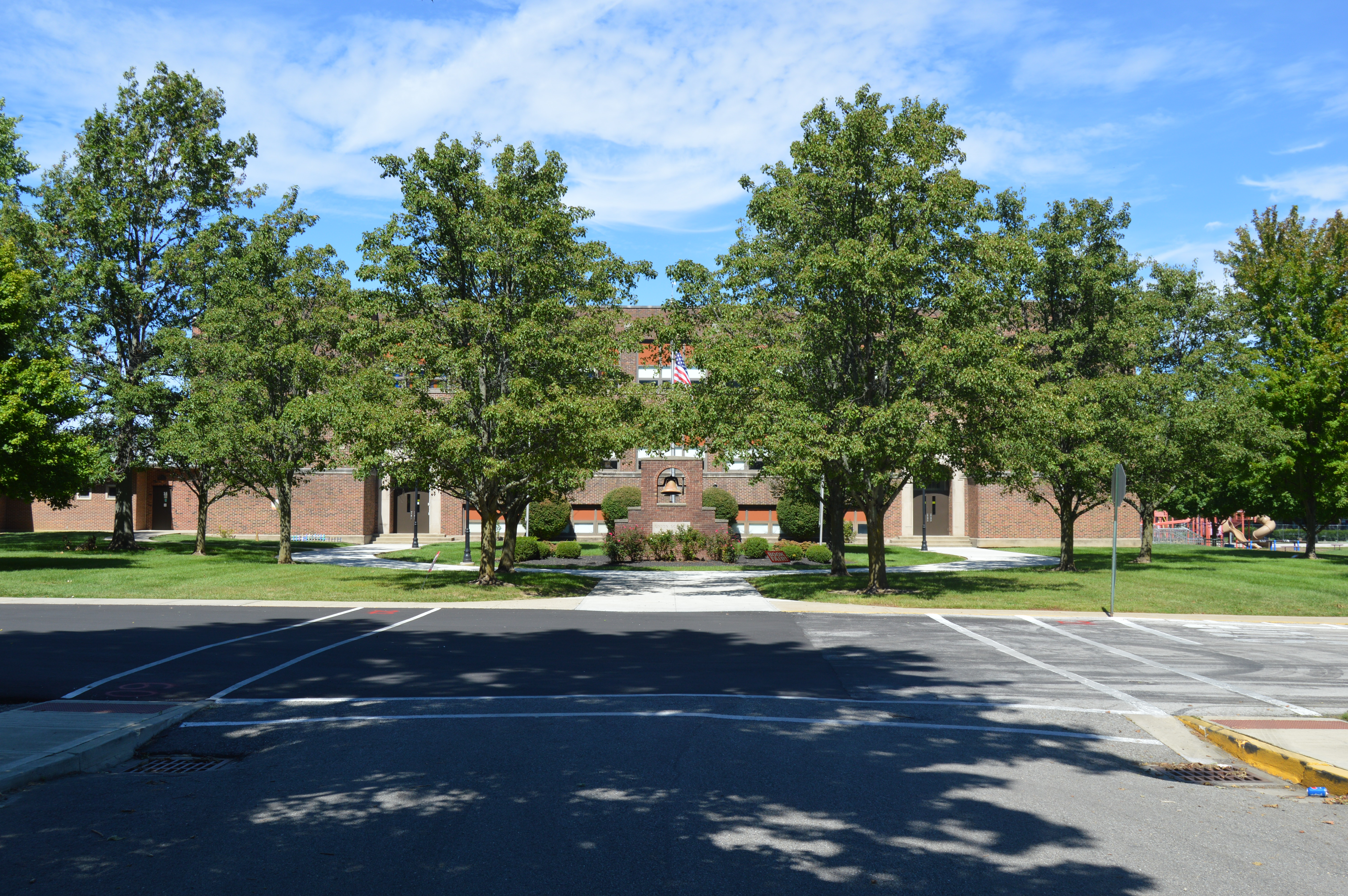 Front of the College Corner Union Elementary School, located at 230 E. Ramsey Street. Photo looks north on Stateline Road; the right half of the image is in College Corner, Ohio, while the left half is in West College Corner, Indiana, in the United States. The school building was completed in 1926.